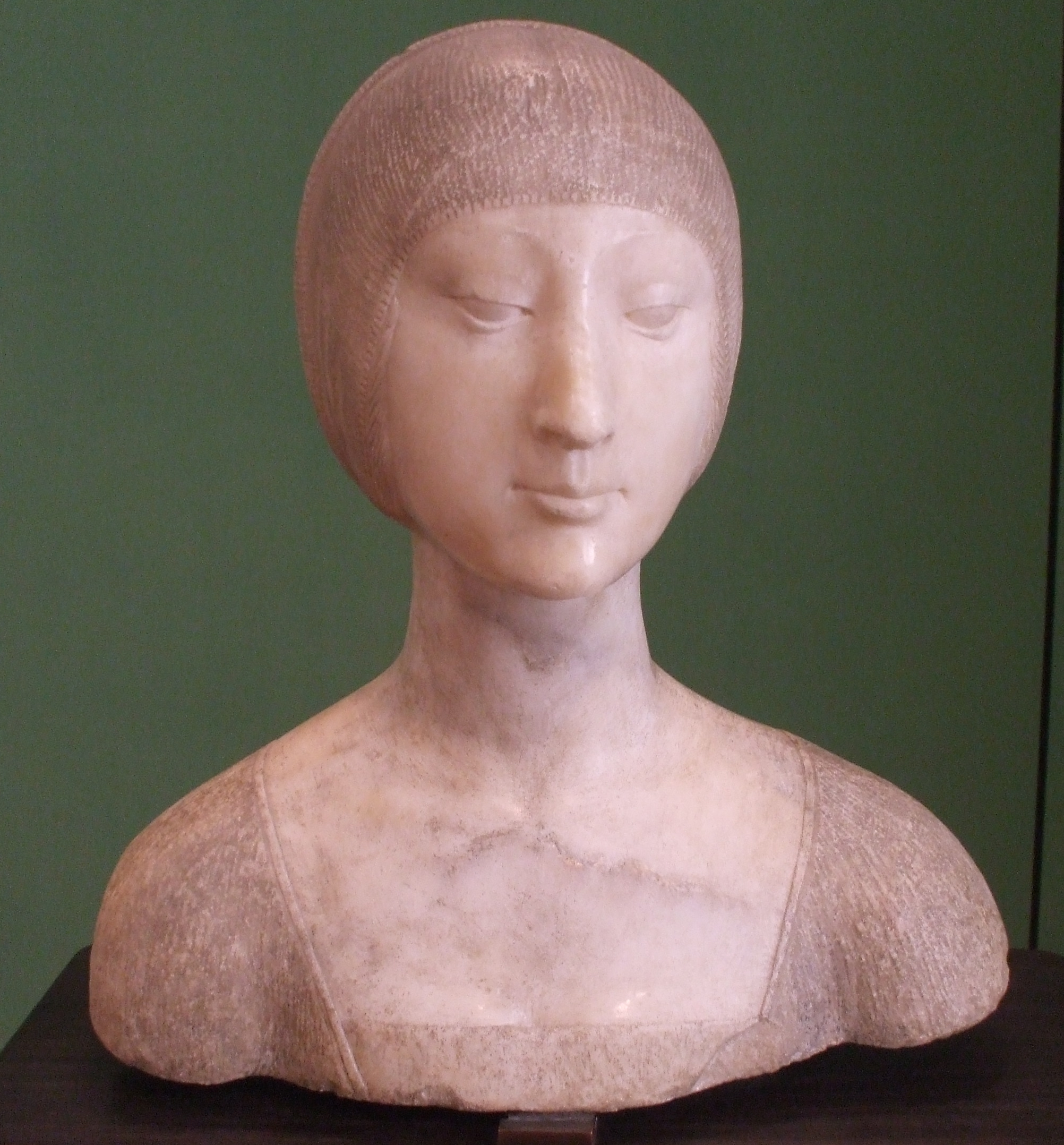 Busto di gentildonna, conosciuto anche come Busto di Eleonora d'Aragona (1346-1405) di Francesco Laurana, custodito a Palazzo Abatellis, Palermo [1]